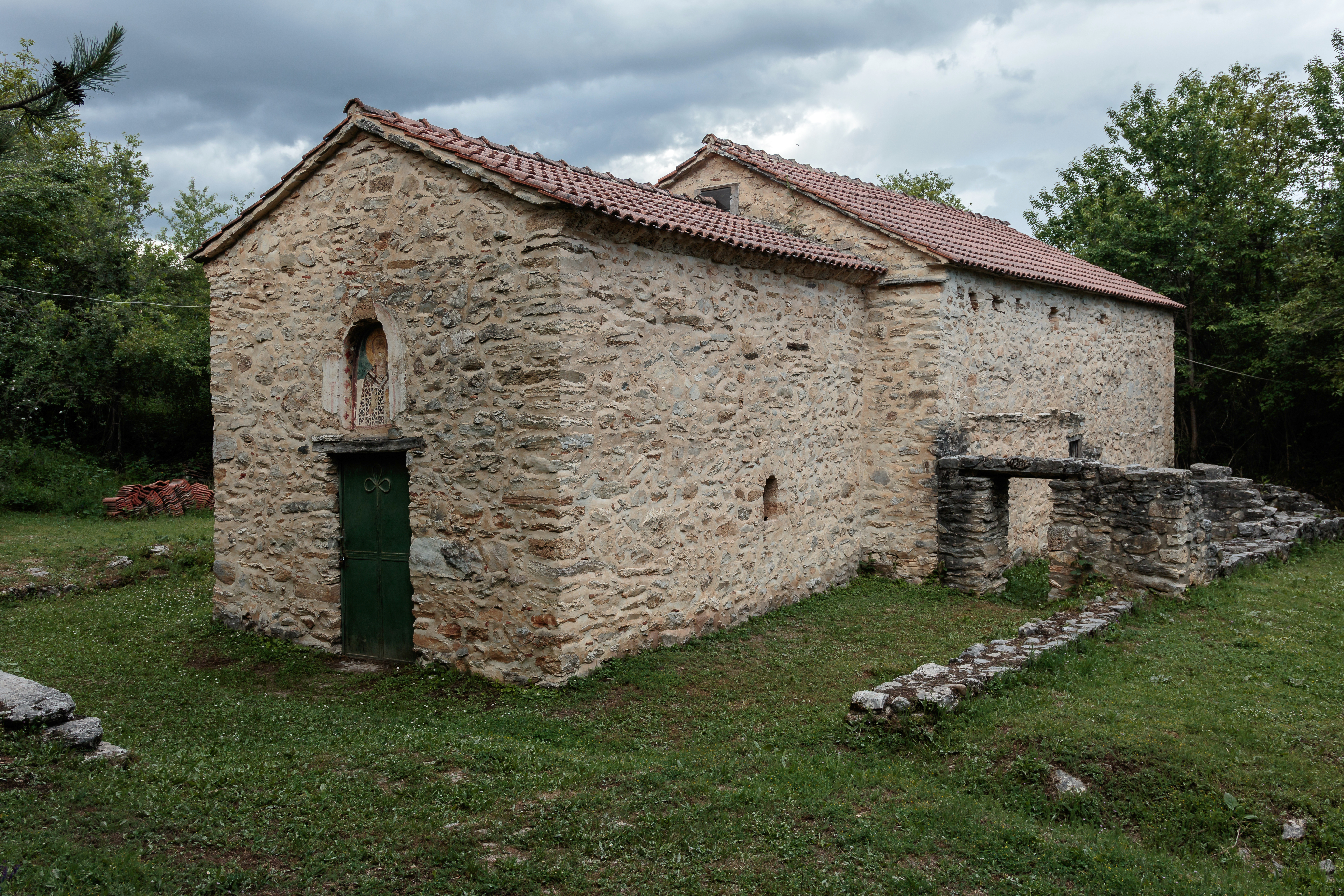 St. Nicholas Toplički Church near the village of Sloeštica, Železnik, Macedonia.